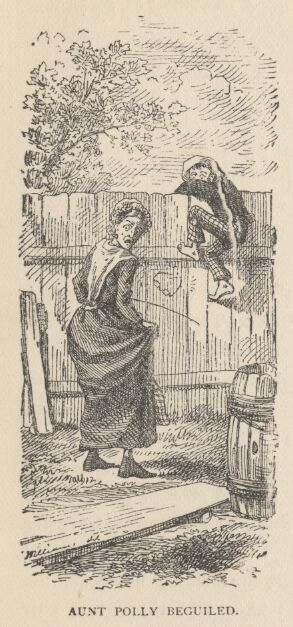 Illustrations de The Adventures of Tom Sawyer, 1876.